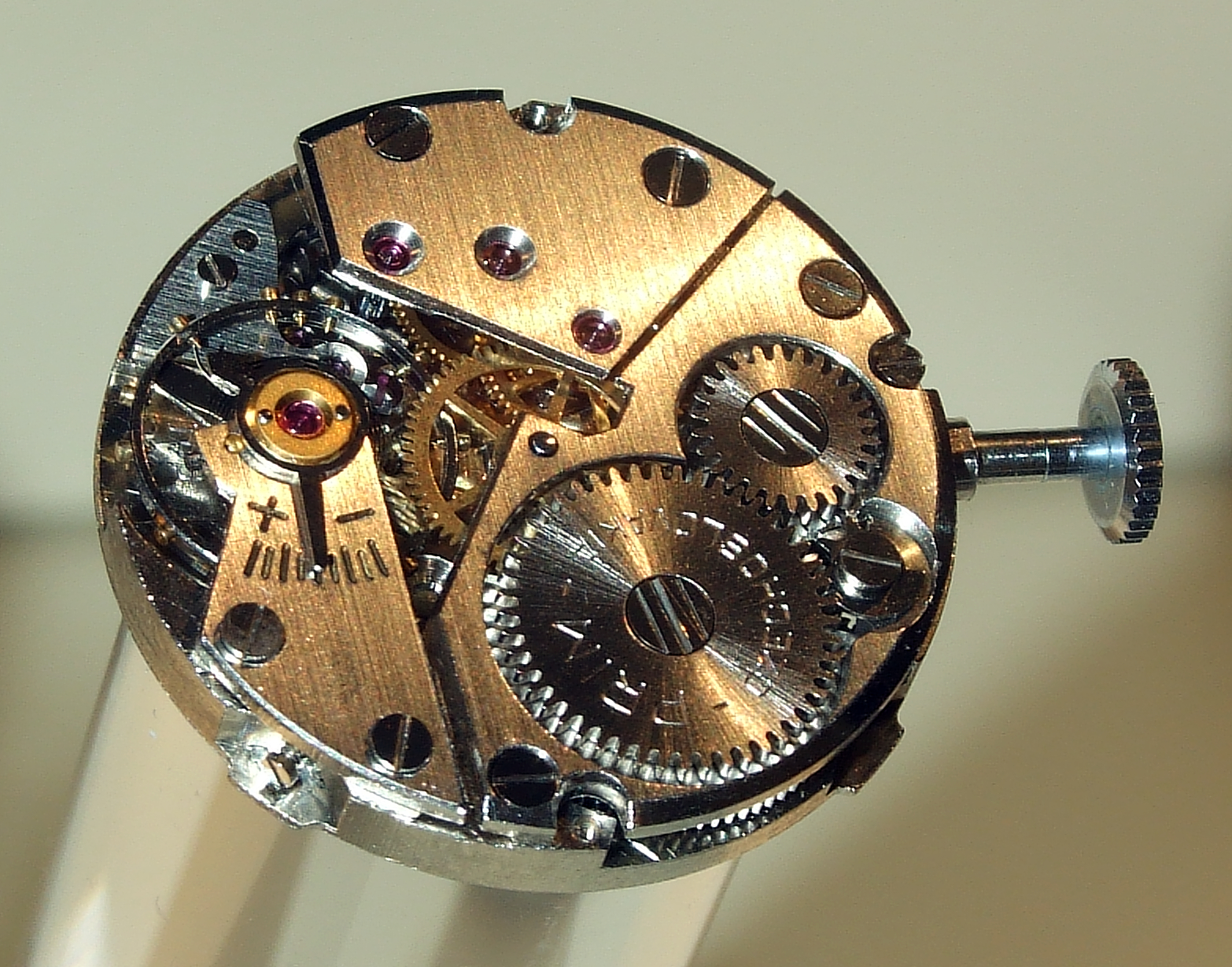 Prim clockwork of a wristwatch, watchmaking exhibition, Municipal Museum, Nove Mesto nad Metuji, Czech Republic